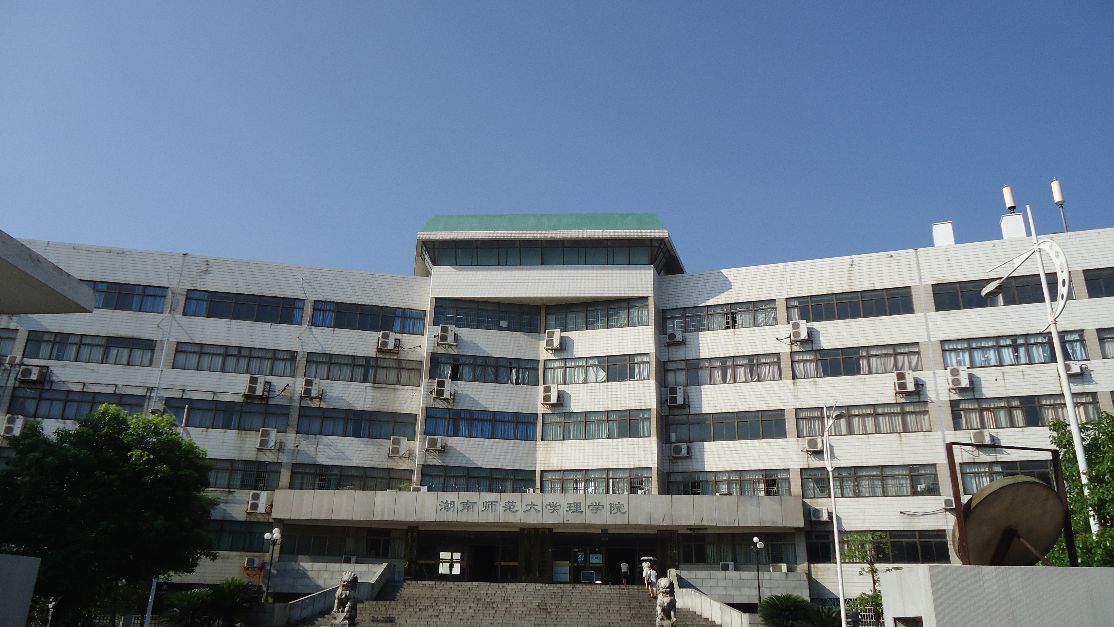 Hunan Normal University,founded in 1938, is a higher education institution located in Changsha, Hunan Province, People's Republic of China. The University is a national 211 Project university, one of the country's 100 key universities in the 21st century that enjoy priority in obtaining national funds.